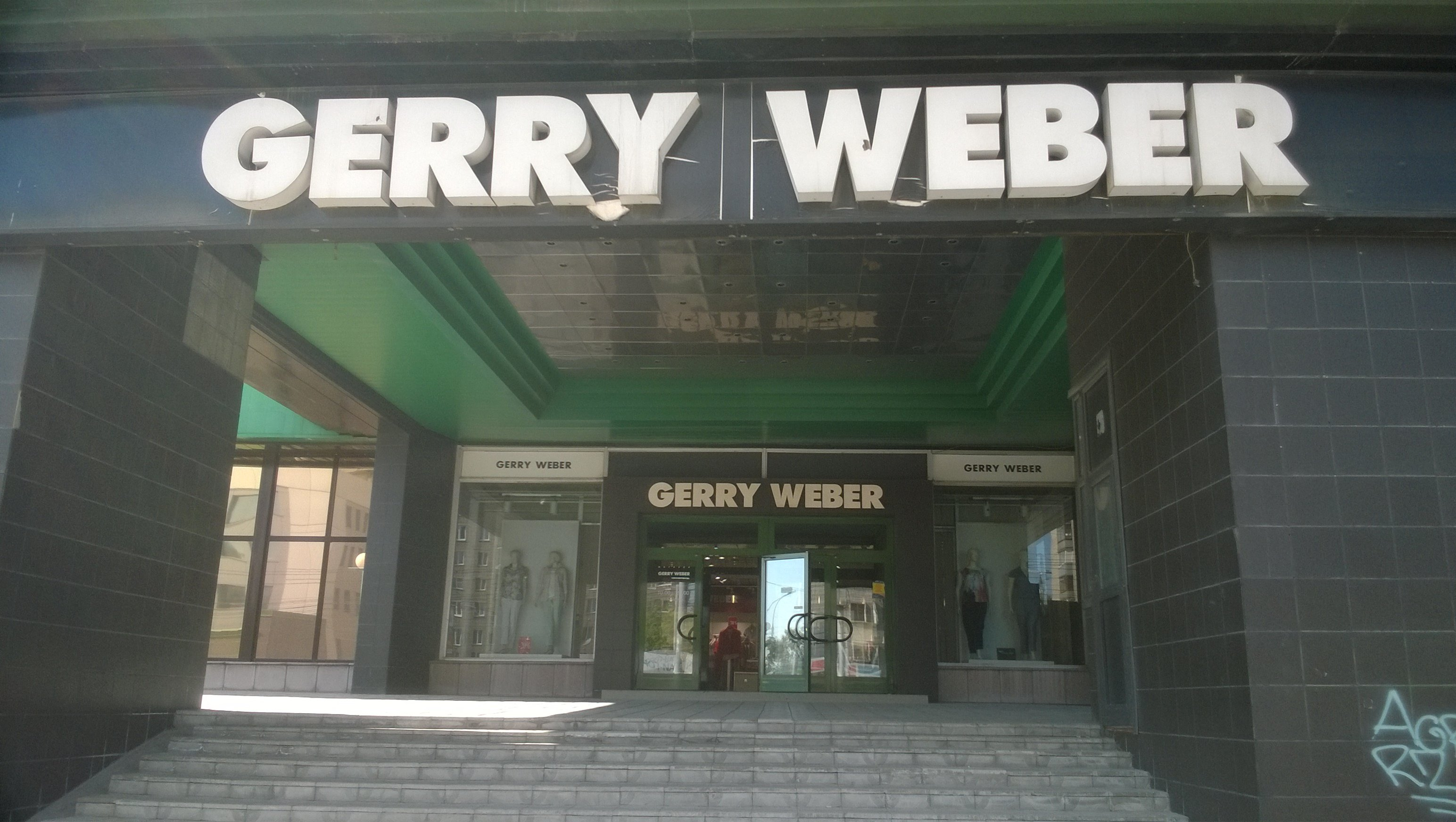 Clothing shop in Novosibirsk.